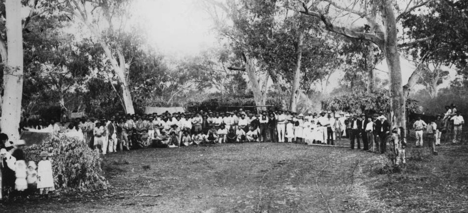 Hughenden Strike Camp, Queensland, 1891. In early 1891, central Queensland shearers went on strike. From February through until May, central Queensland was on the brink of civil war. Striking shearers formed armed camps outside of towns. The culmination of the strike came at Barcaldine, when the colonial administration ordered the arrest of the shearers' leaders on charges of sedition and conspiracy.